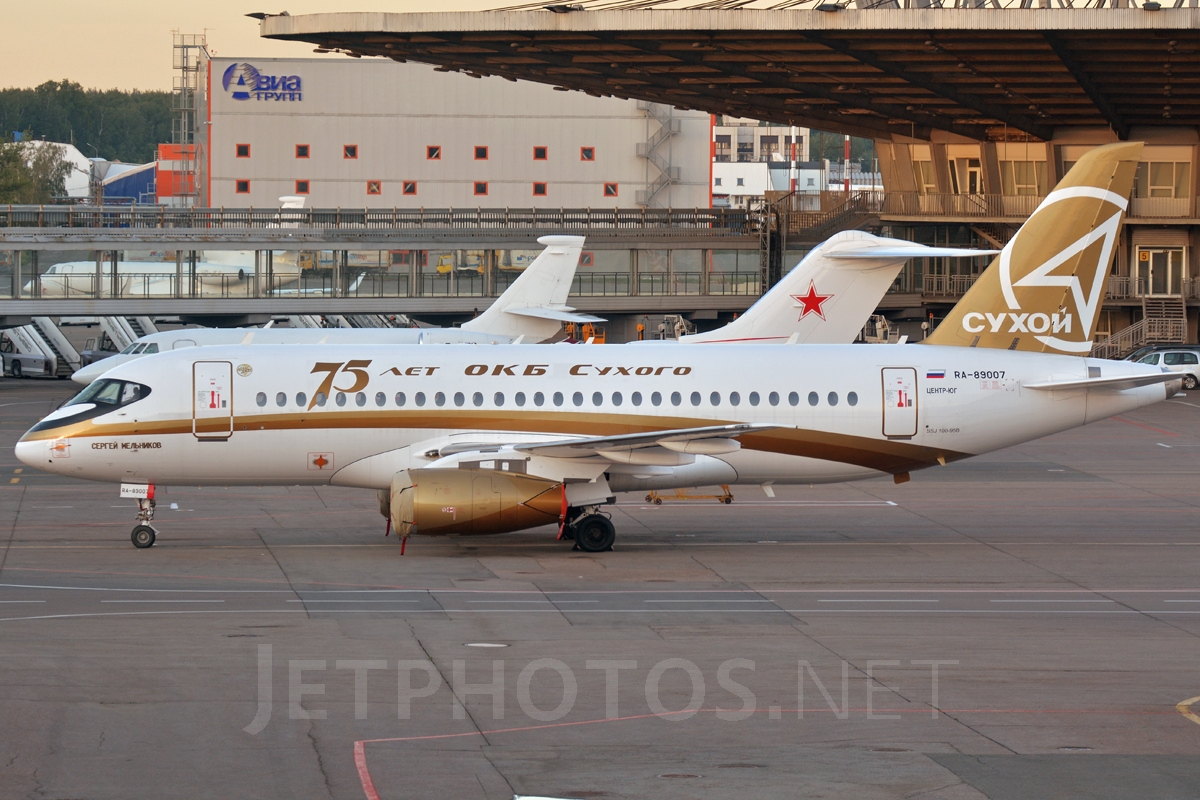 Sukhoi Superjet 100-95 (RA-89007) - Centre-South